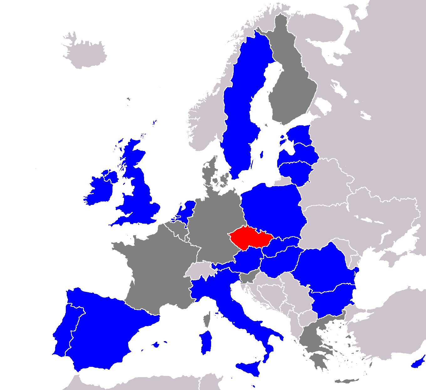 Map of the member countries of the European Union that banned mercury-in-glass thermometers according to Directive 2007/51/EC as of 2009-02-18.